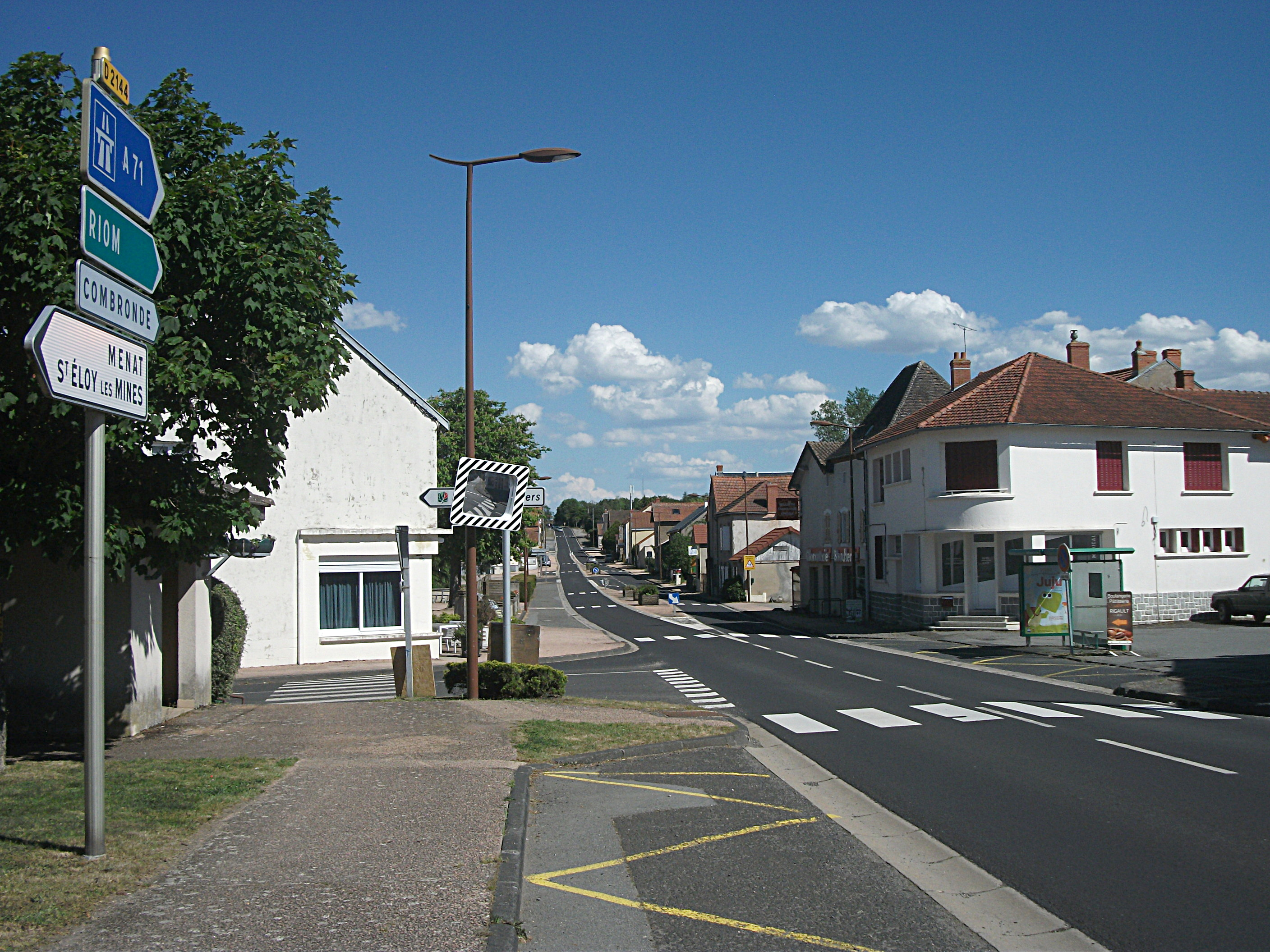 Departmental road 2144 (former route nationale 144) towards Combronde and Riom, in Saint-Pardoux, Puy-de-Dôme, Auvergne-Rhône-Alpes, France. [18445]